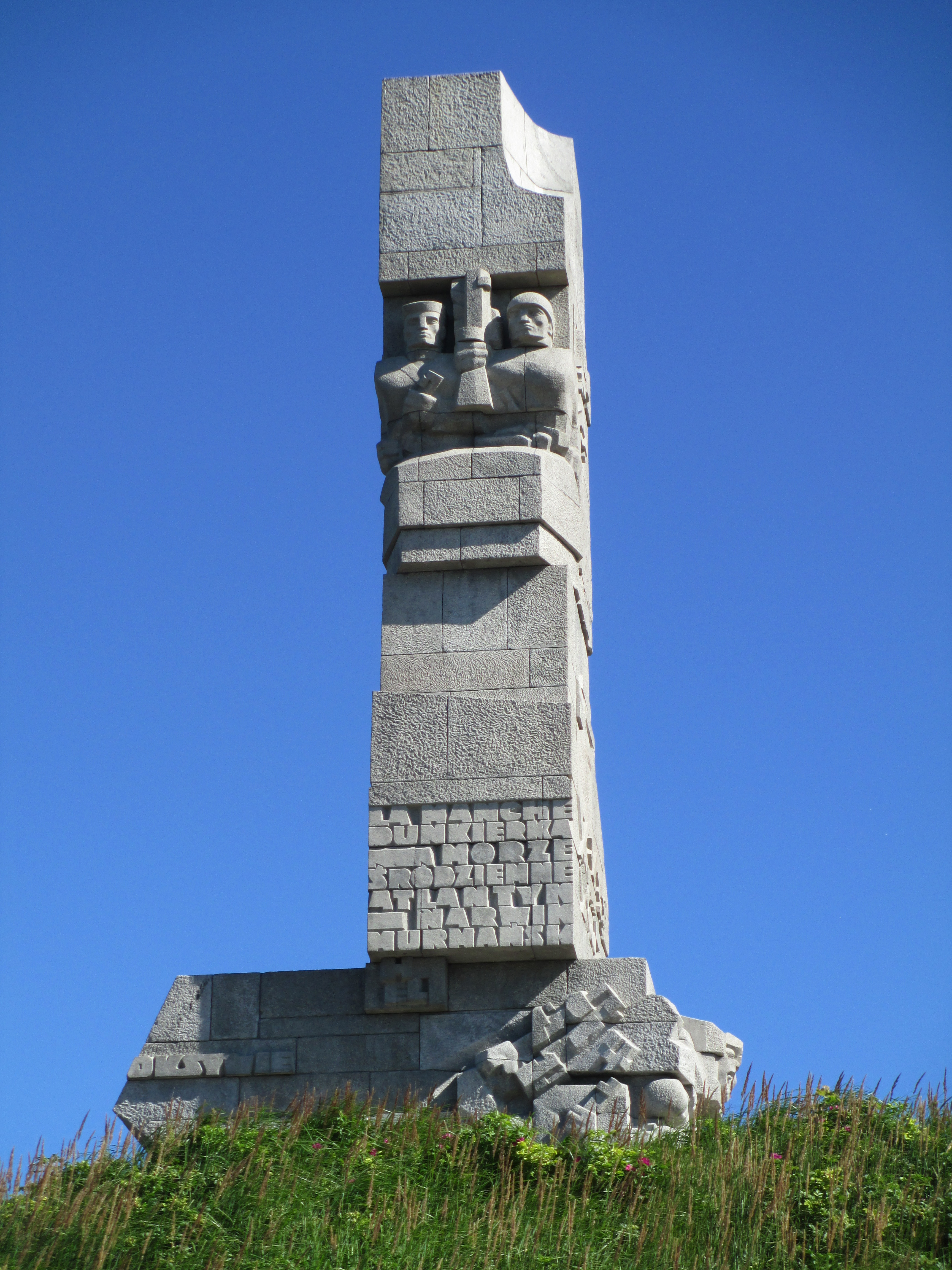 Westerplatte monument in Gdansk.